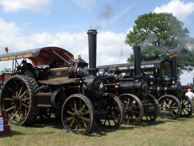 Three traction engines raising steam, Astwood Bank